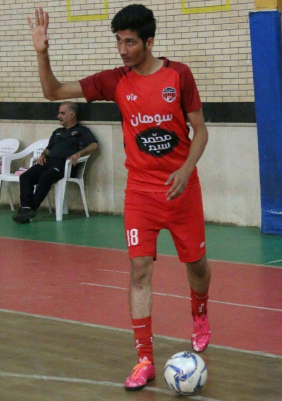 Hossein Razavi